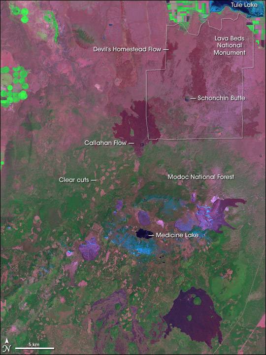 False-color satellite image of Lava Beds National Monument and portions of Siskiyou County, California. water features appear dark blue, snow is pale blue, bare land is pink, forests are deep green, and agricultural land appears bright green. The checkerboard of pale pink and deep green along the northwestern slopes of the volcano are clear cuts within the national forest: all the trees are harvested in one area, surrounded by uncut forest. Flowing patterns in various shades of deep red and burgundy are lava flows.